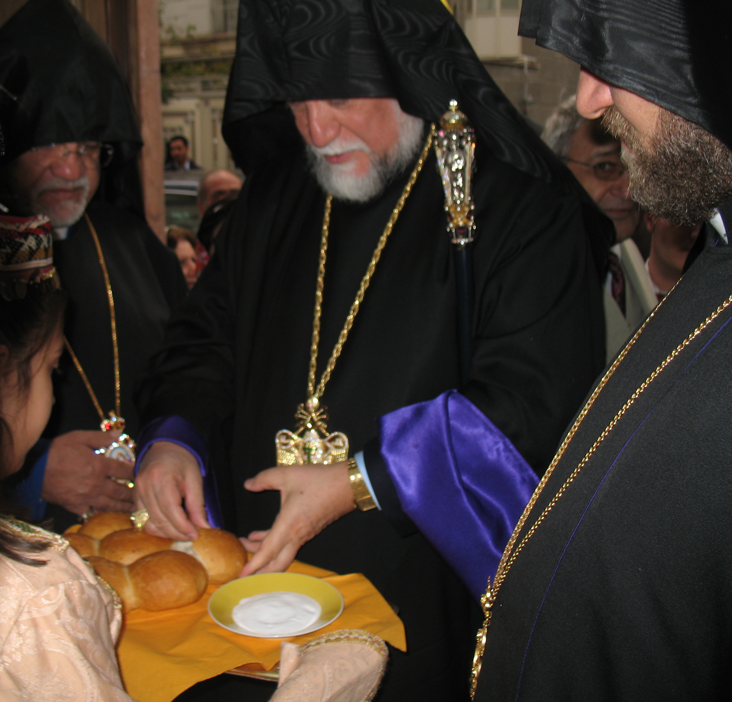 His Holiness Aram1 visited St.Vartanants Church 2008